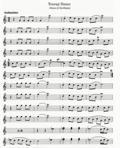 Azerbaijan national folk dance Touraji